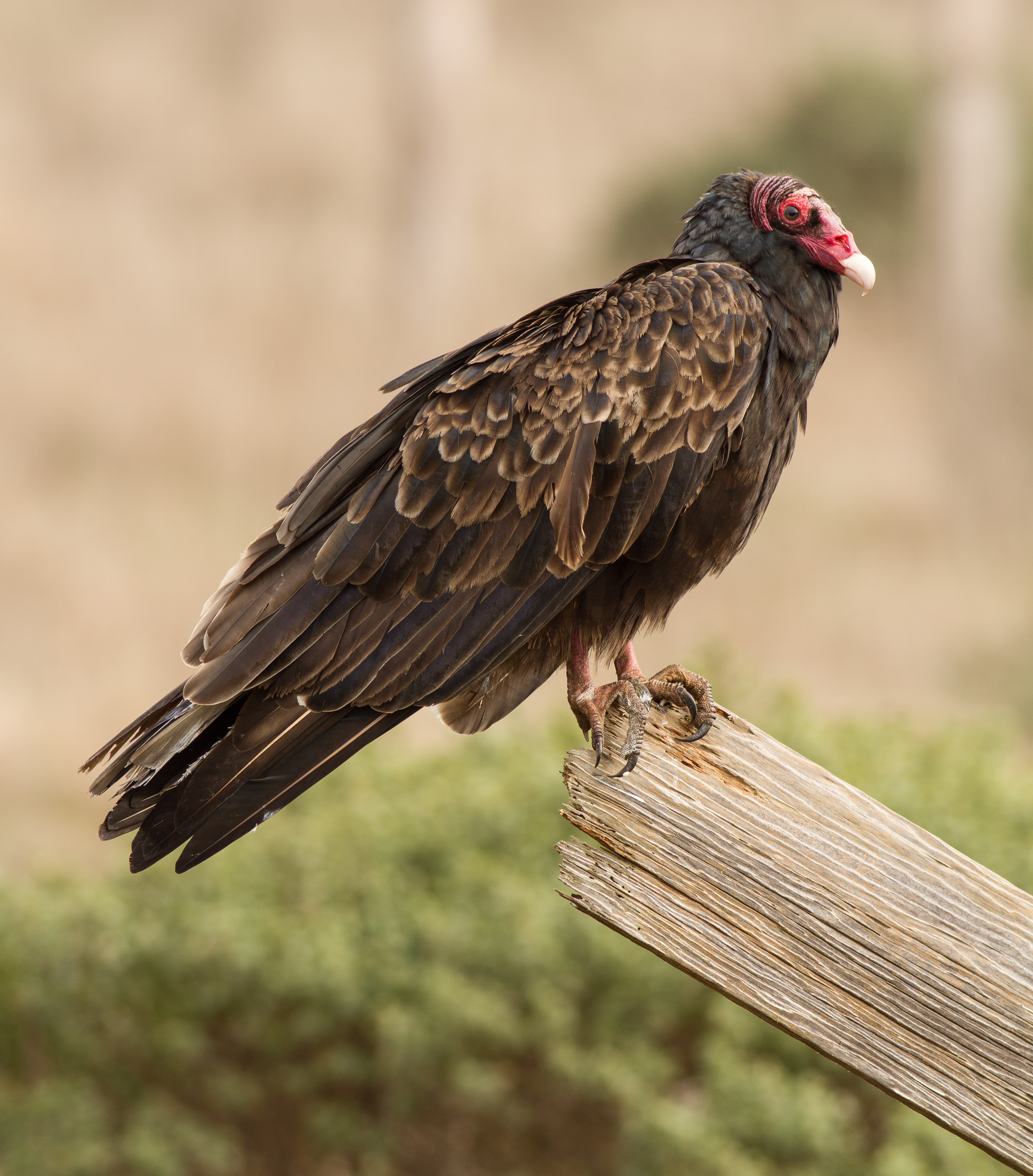 Turkey vulture (Cathartes aura septentrionalis) perched atop a piece of wood on the eastern side of Tomales Bay, Marin County, California.